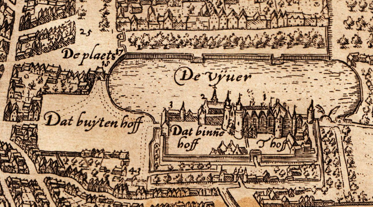 The Binnenhof ('Inner Court') and its surroundings. Cut-out from a bird's eye map of The Hague, dating from around 1600.